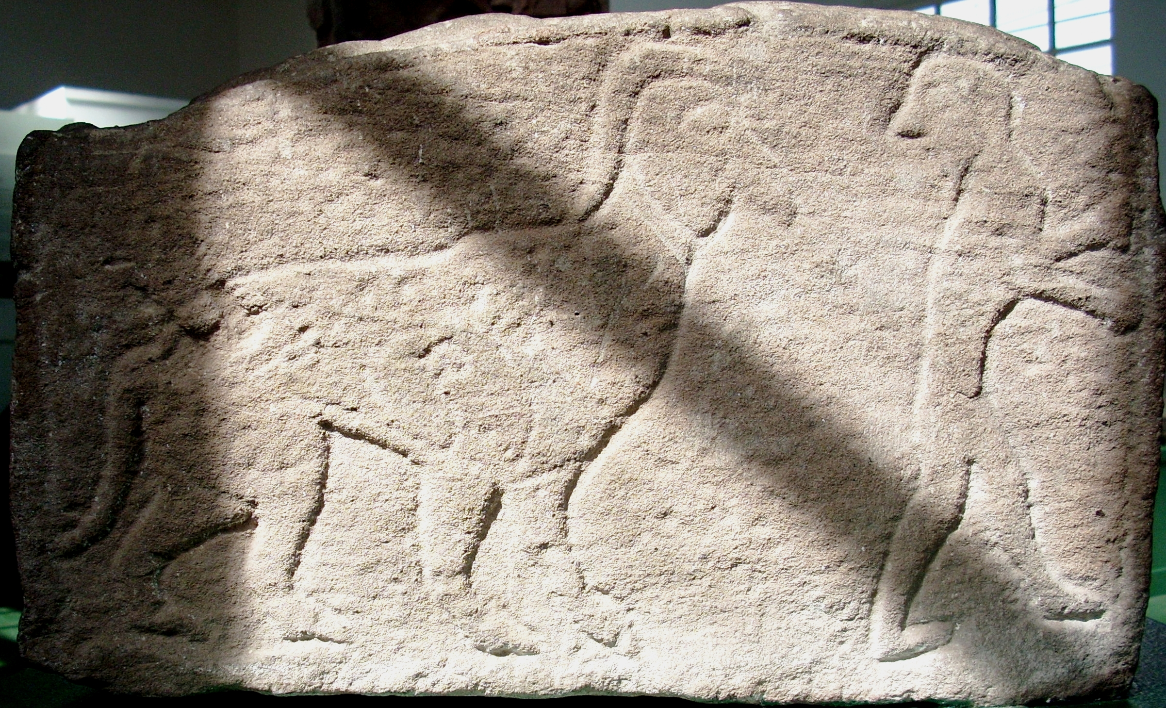 The end of Meigle 26 Pictish stone, showing a manticore and a human.